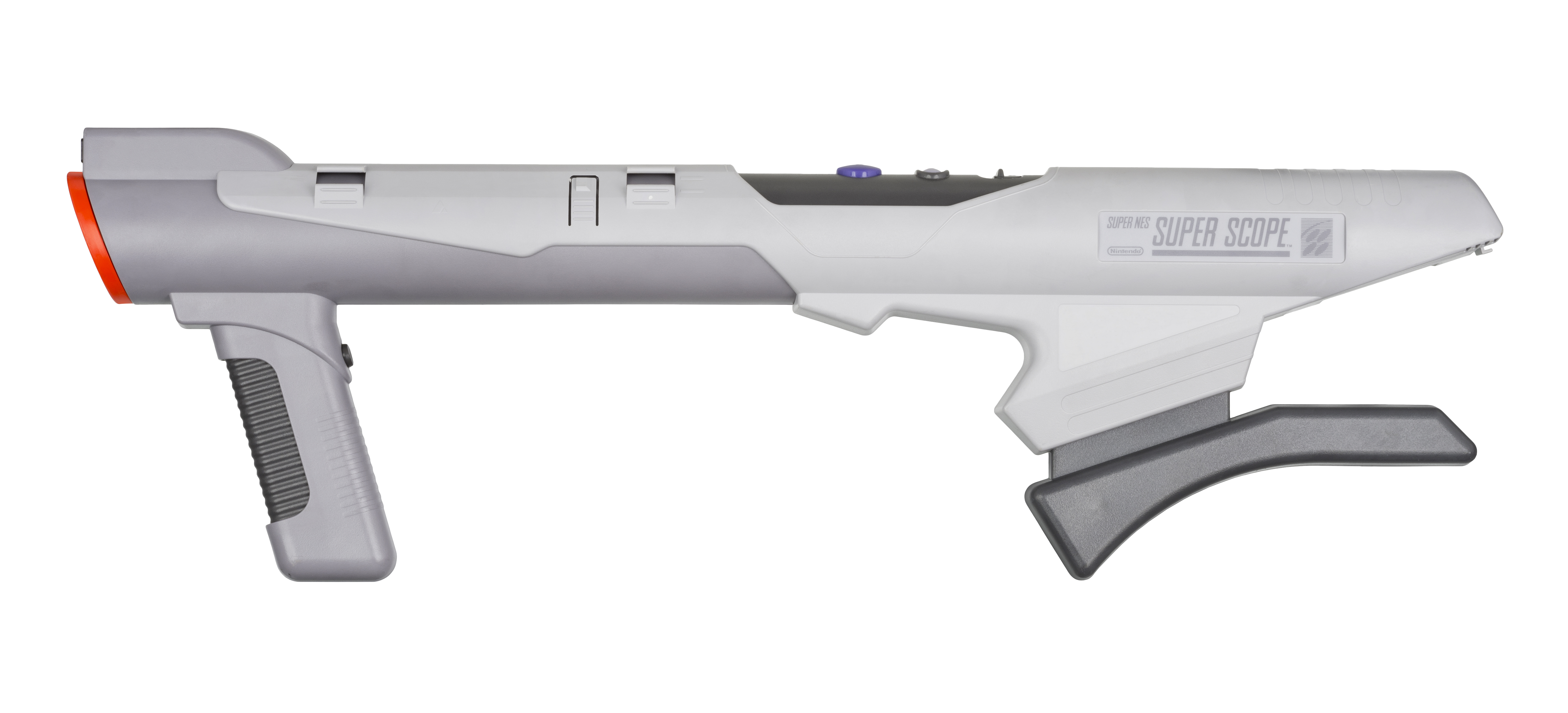 The Super Scope light gun for the Super Nintendo video game console, shown without the snap-on precision scope.